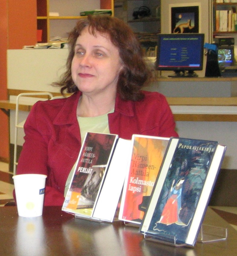 Virpi Hämeen-Anttila, Finnish writer, translator and researcher, in Helsinki on World Book Day.